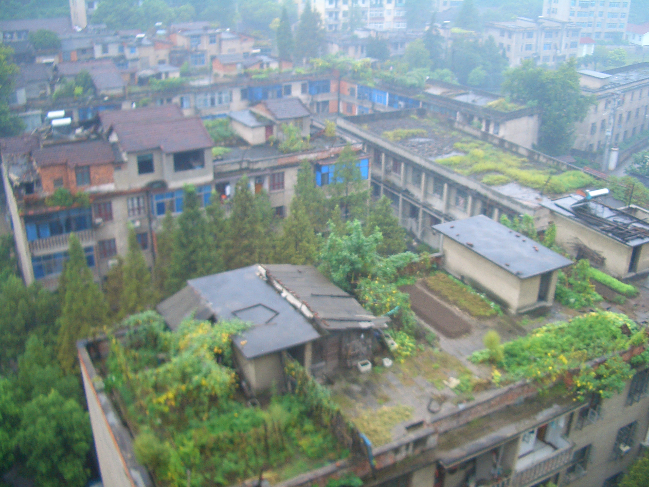 An apartment complex in downtown Tongyang Town, the county seat of Tongshan County, Hubei. Note the creative use of the building roofs!